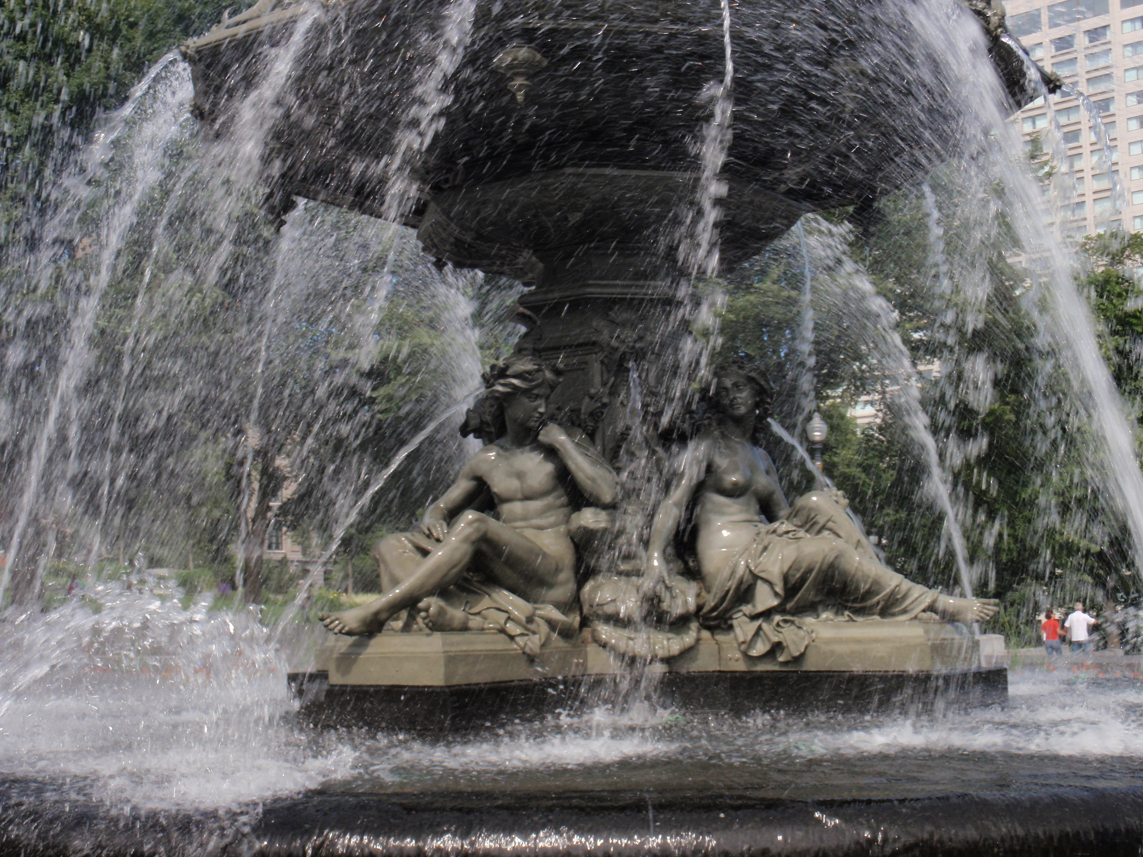 Fontaine de Tourny in Quebec City